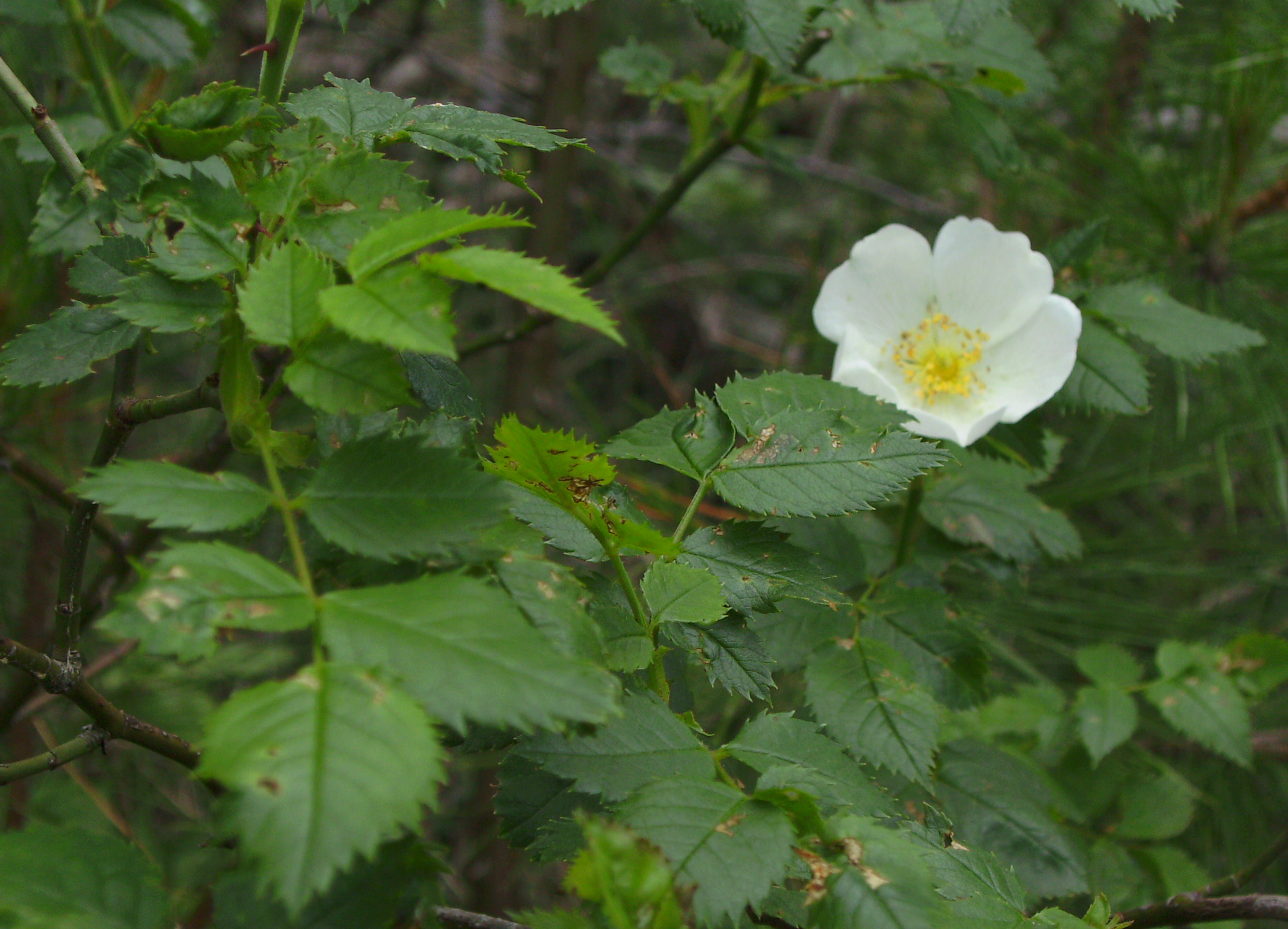 Rosa canina in the wild, Castelltallat, Catalonia